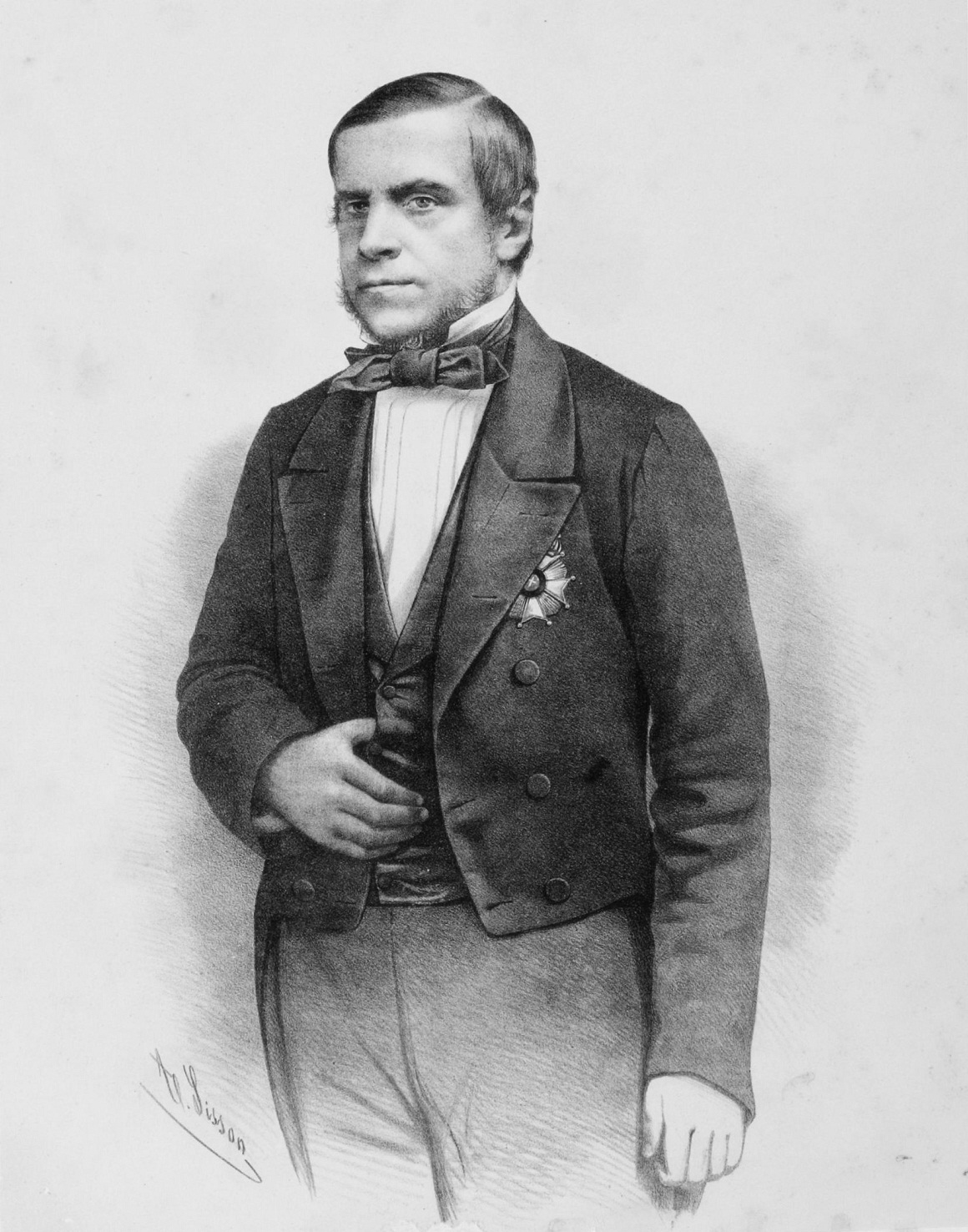 Honório Hermeto Carneiro Leão, marquiss of Paraná.